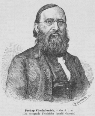 Portrait of Prokop Chocholoušek (1819 - 1864), Czech writer.